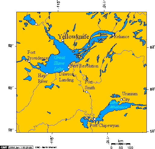 Map of Great Slave Lake and Lake Athabasca. Please be aware that this image also exists at Image:Great Slave Lake and Lake Athabasca 6.png. However for the Great Slave Lake article the png image will not work in the infobox. The creator of the original png has been notified.